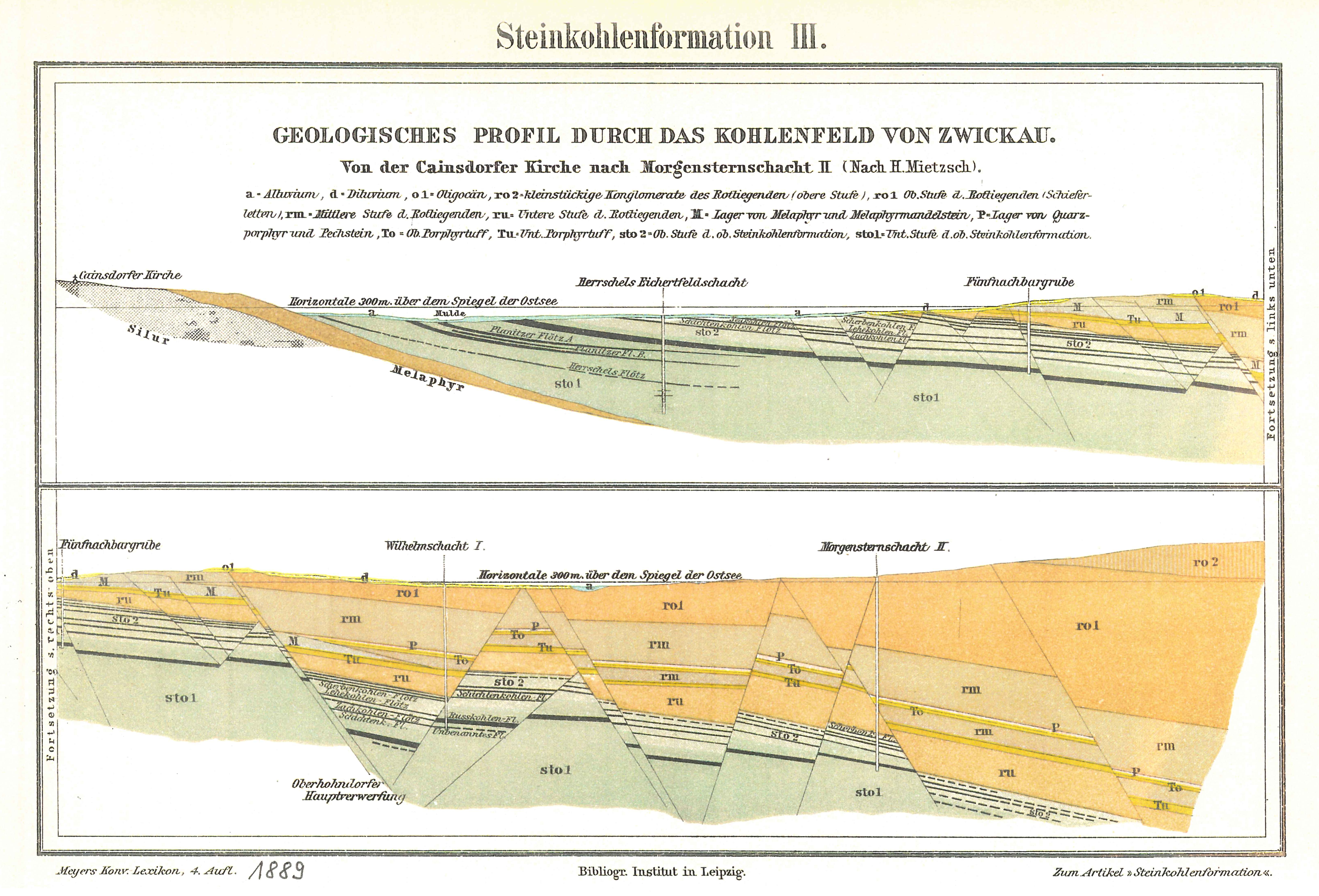 A geological profile showing the Carboniferous rock layers near the German city Zwickau.